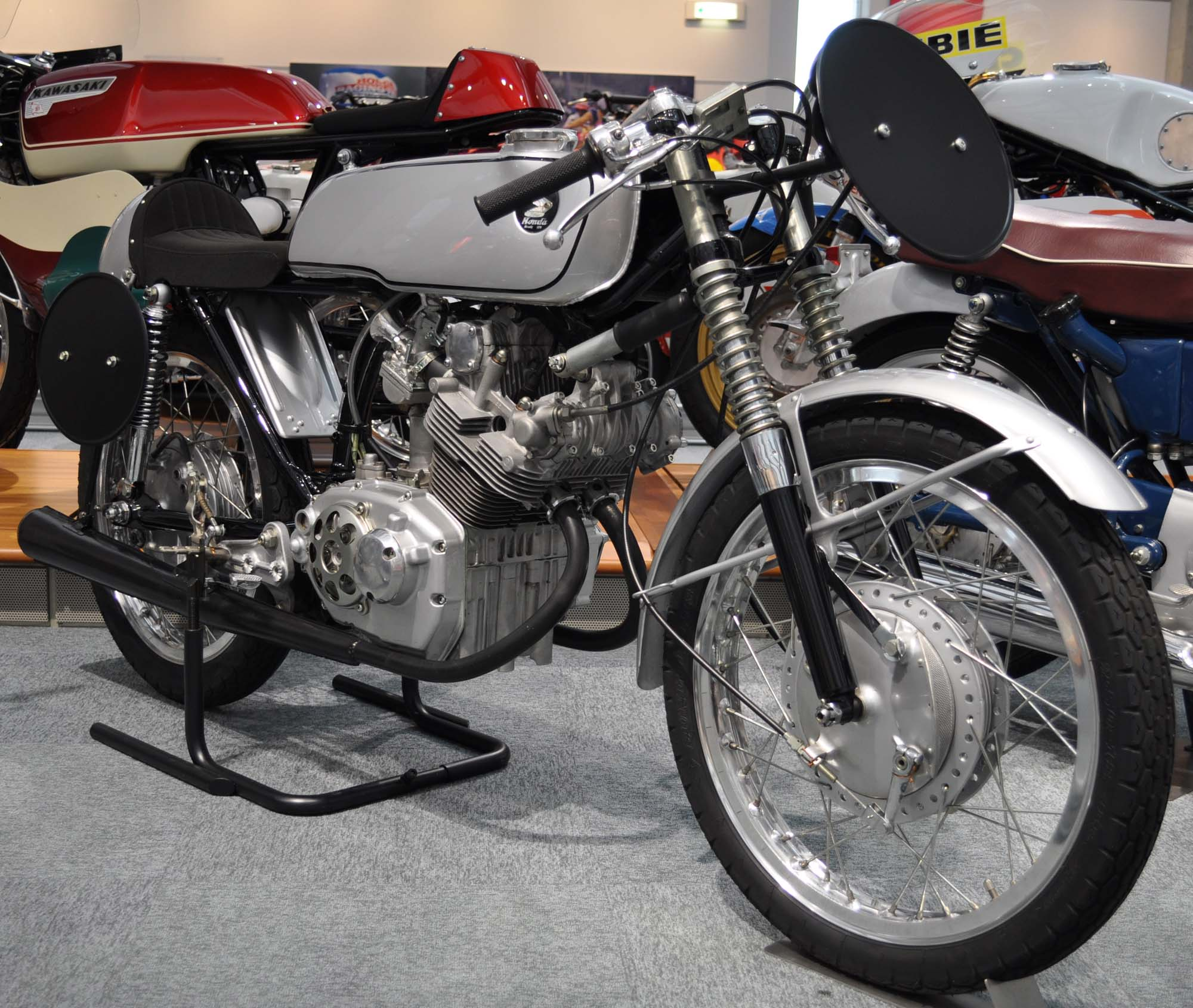 Honda CR93 Benly racing (1962)